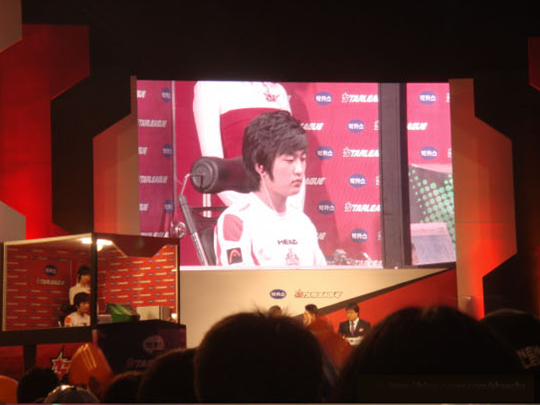 Bacchus Lee Young Ho